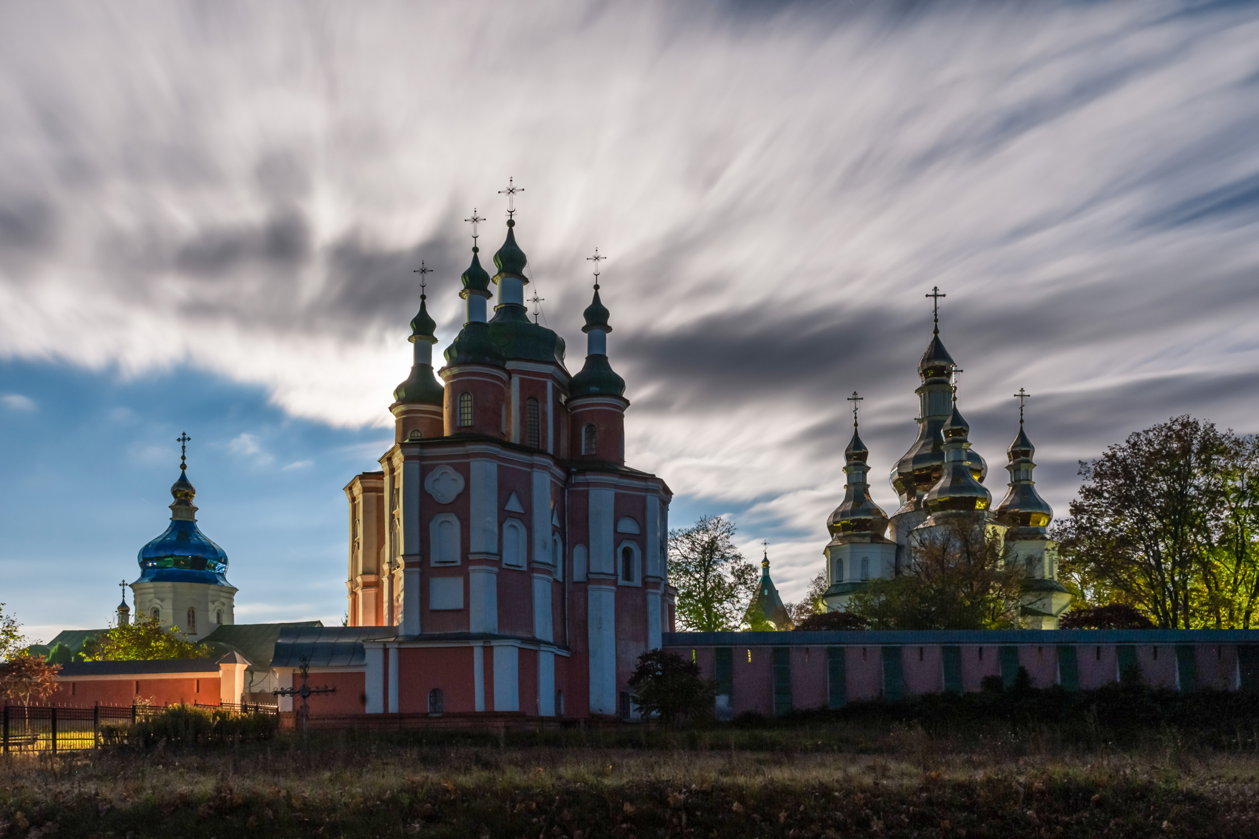 Gustynskiy monastery, Ukraine